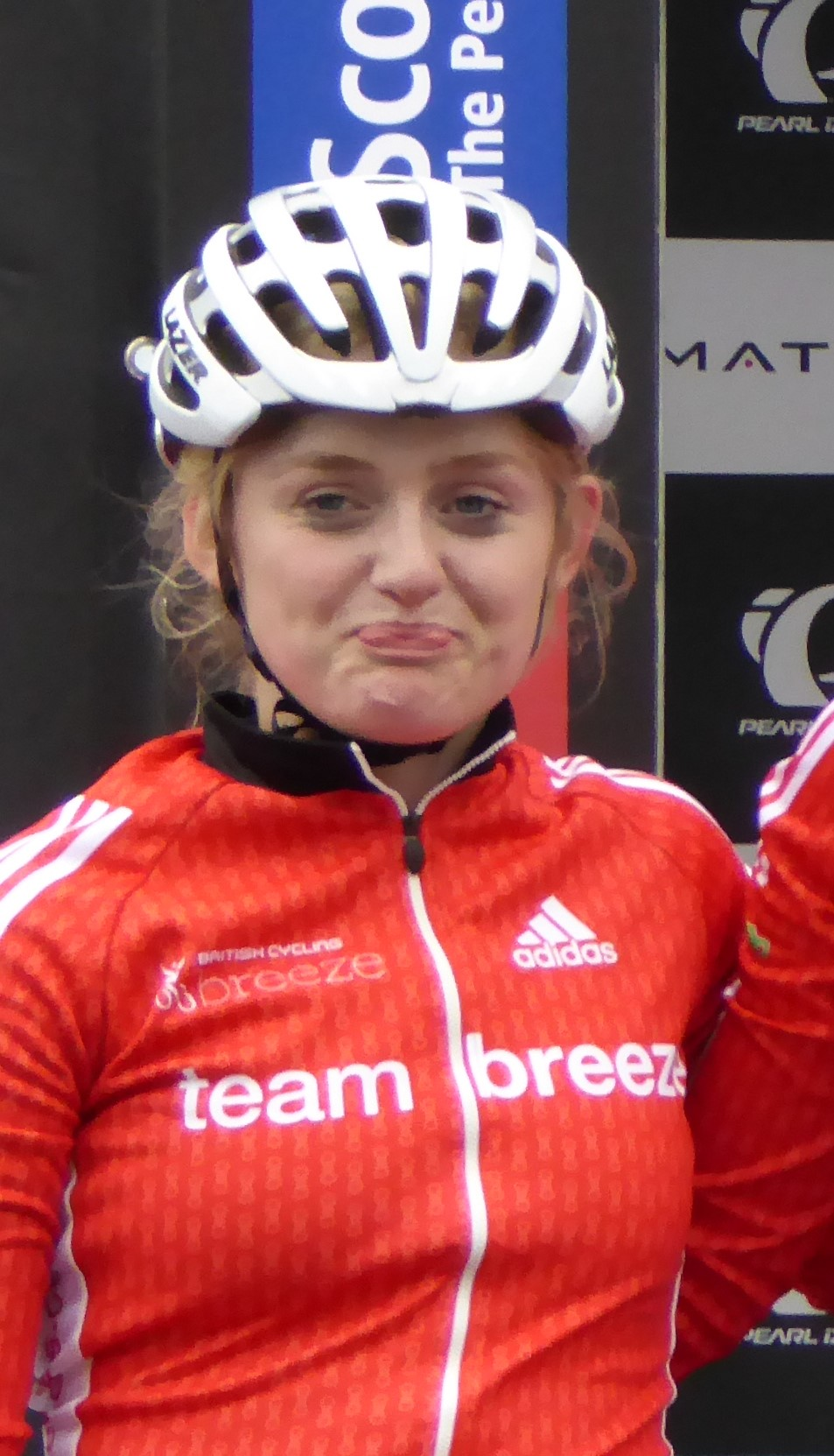 Emily Kay (Team Breeze), prior to Round 1 of the Matrix Fitness GP Series in Motherwell, on 17 May 2016